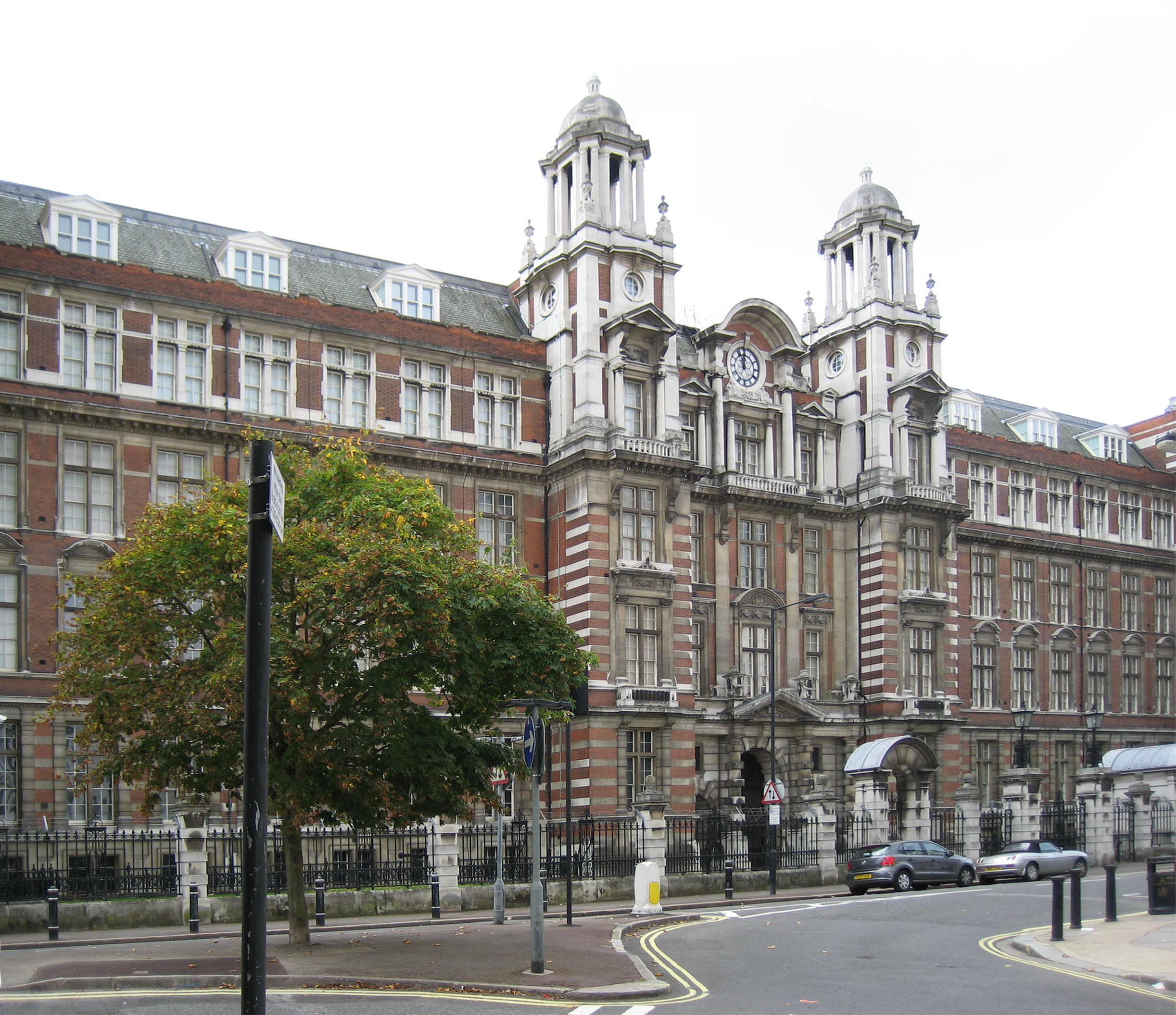 The north block, with main entrance, of Blythe House (West Kensington, London, UK) seen from Hazlitt Road